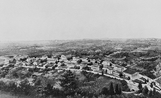 Lanier University (plans) circa 1921